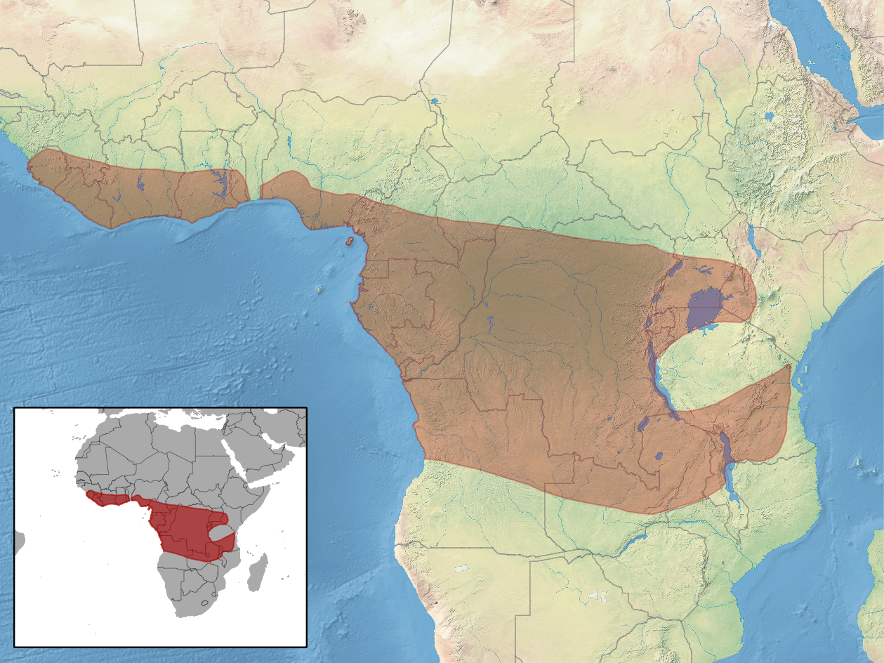 geographic distribution of Anomalurus derbianus